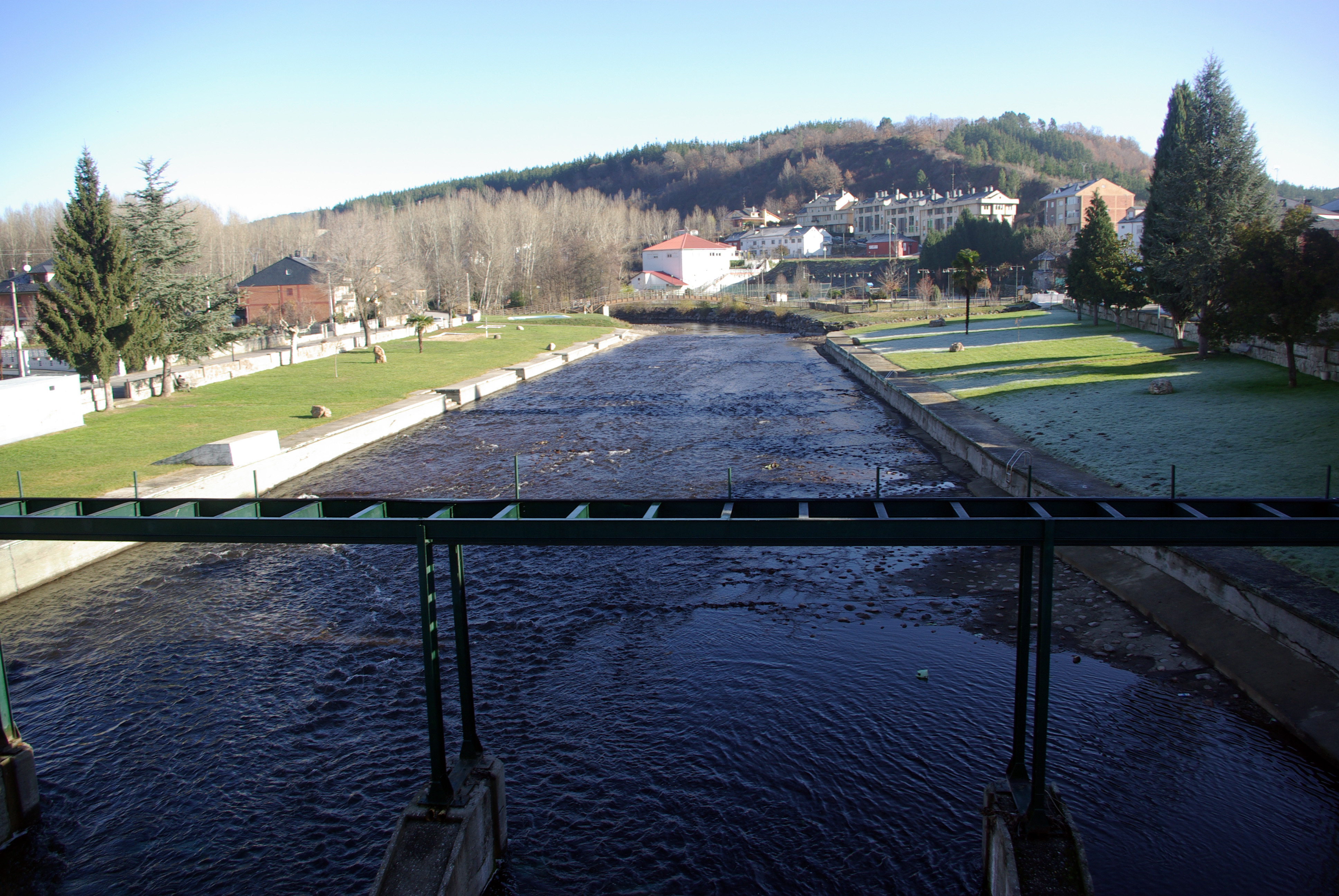 Natural pool in river Cúa in Vega de Espinareda, (León, Spain)